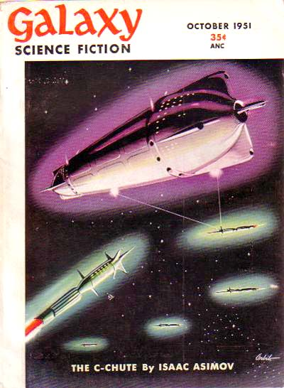 Cover of Galaxy, October 1951